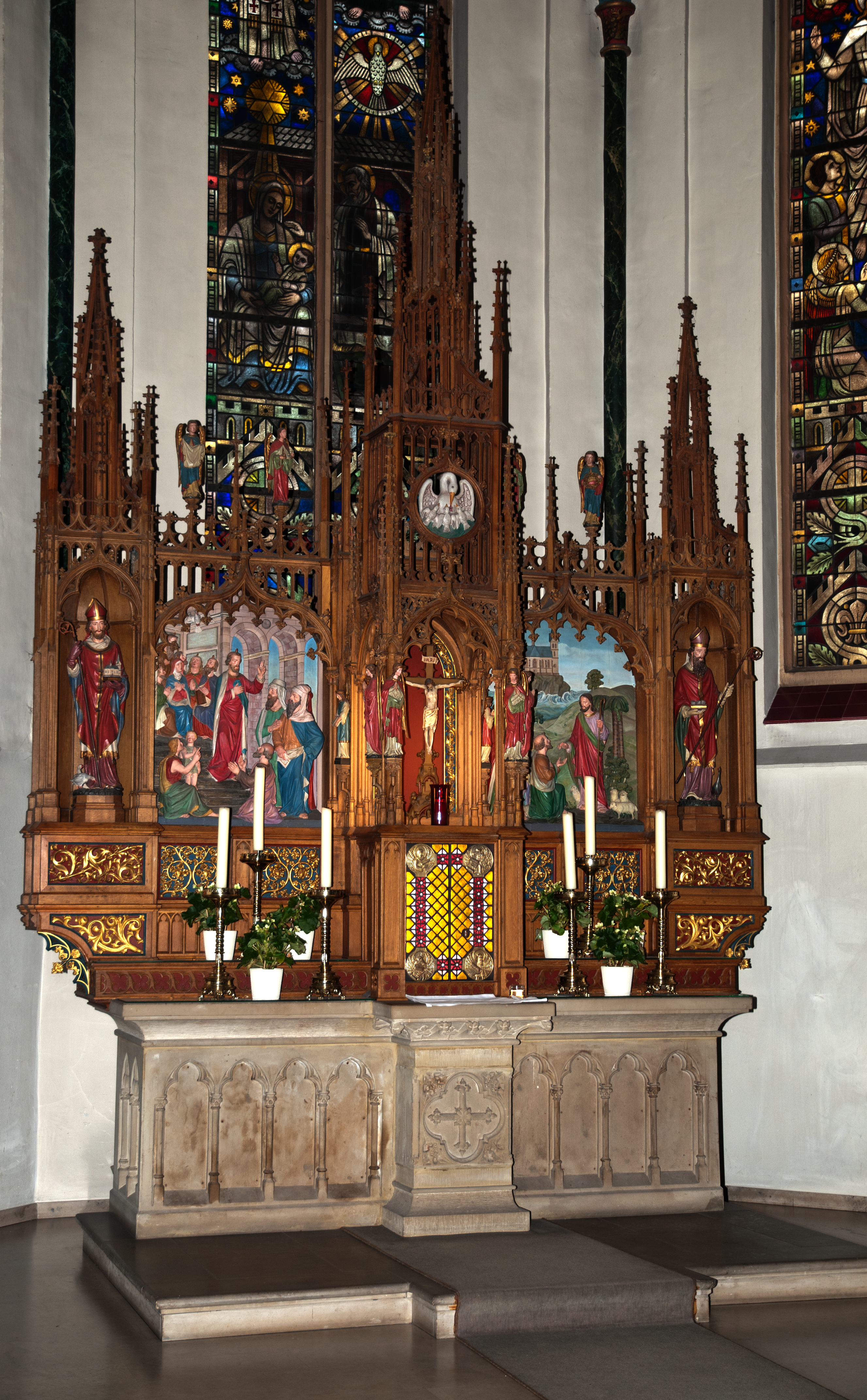 Hüsten - Church St. Petri, Altar